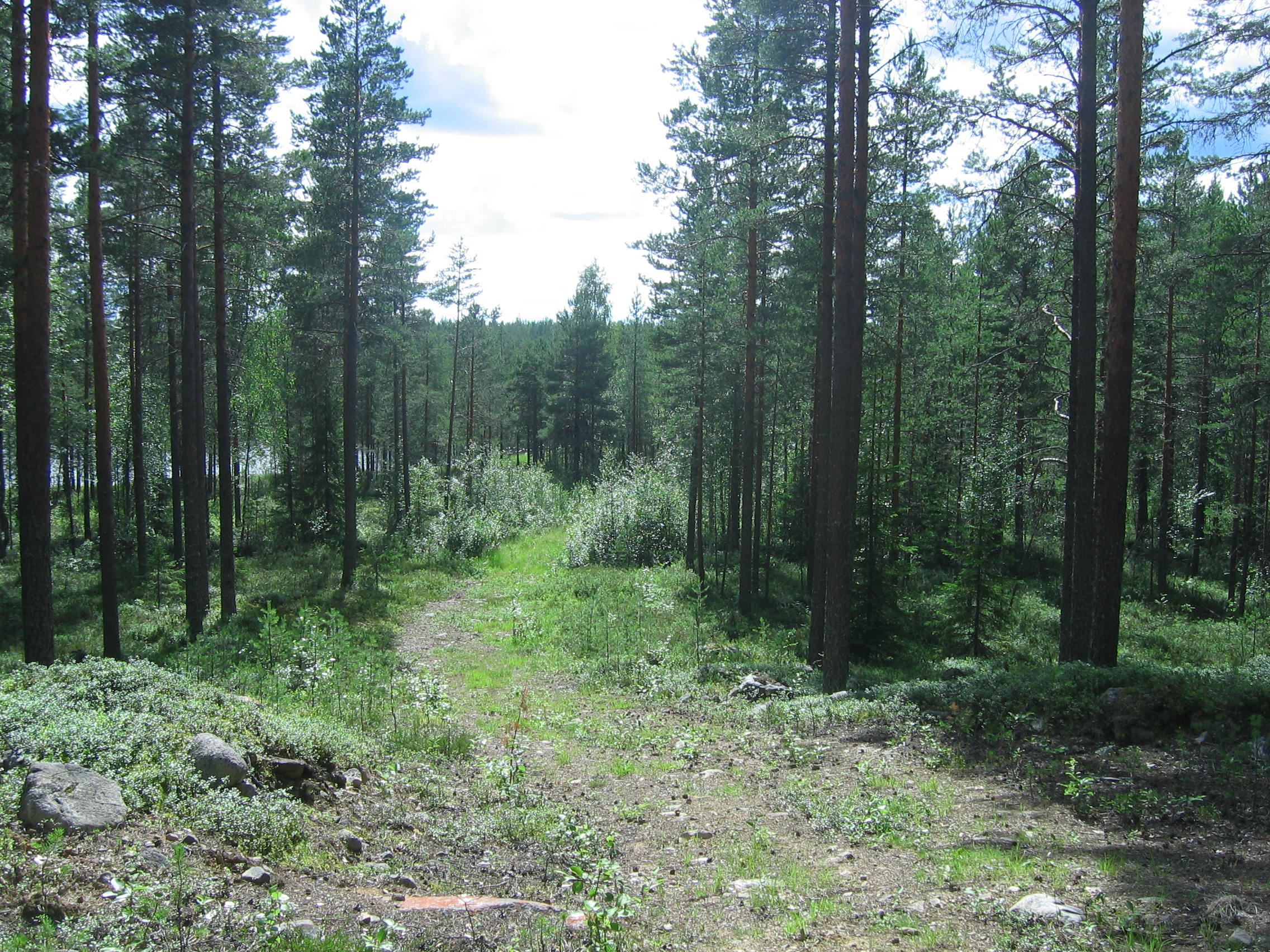 A road-like track in the wilderness of Juorkuna, Utajärvi, Finland meant for off-road vehicles and winter-time use only.